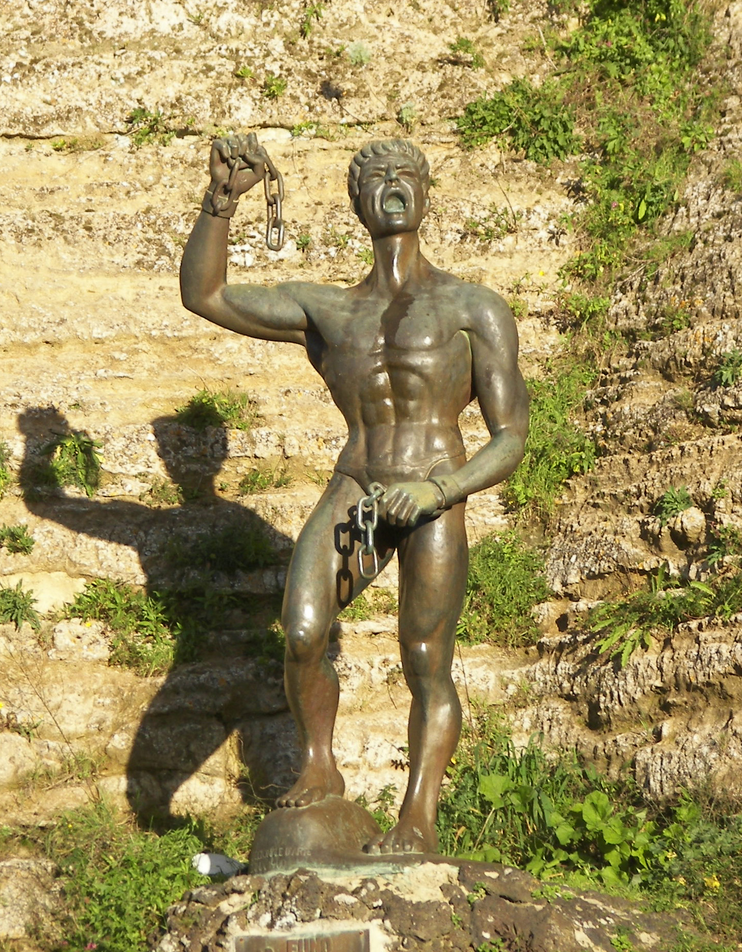 Monument at Euno, Enna, Sicily